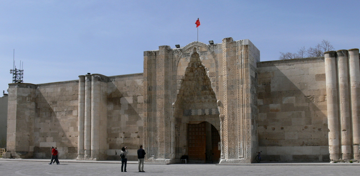 Sultanhani caravanseray ( Aksaray/Turkey ). Facade with main portal.